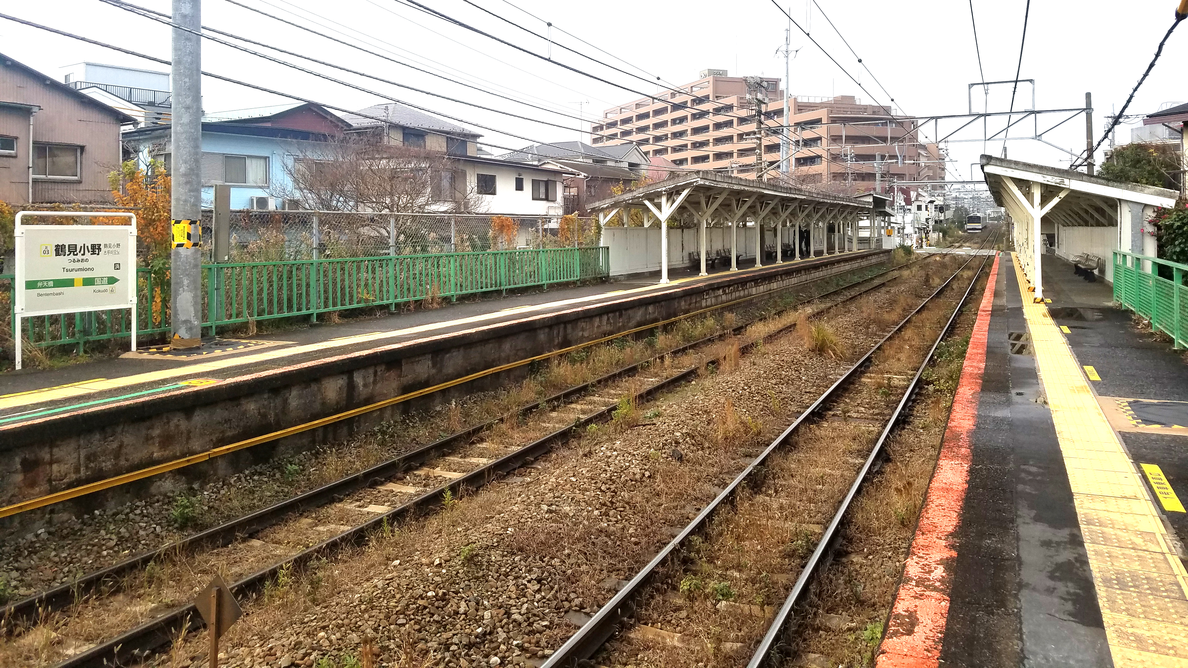 The platforms at Tsurumiono Station on the Tsurumi Line in Tsurumi-ku, Yokohama, Japan